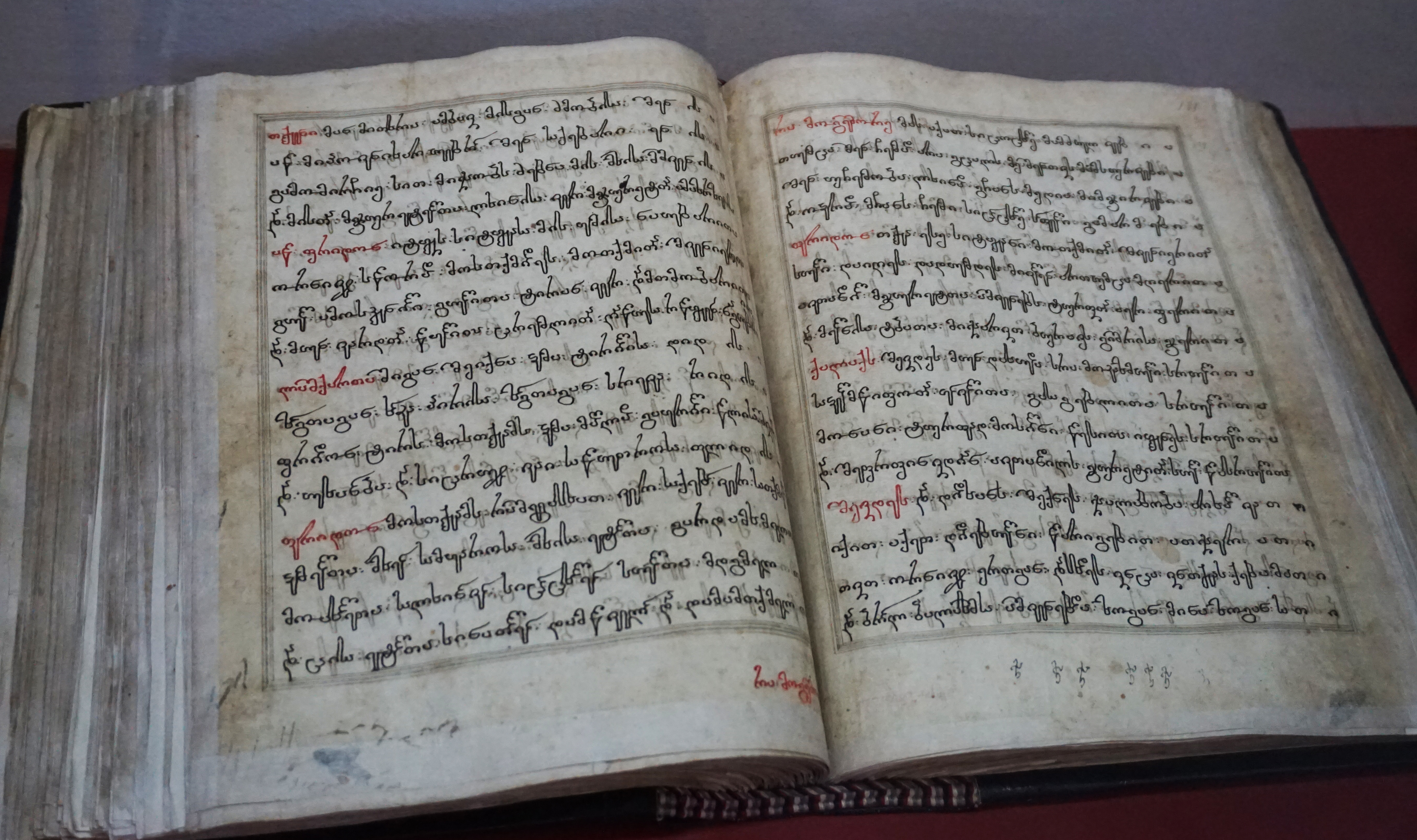 Shota Rustaveli's "Knight in the Tiger's Skin", paper, XVII c.